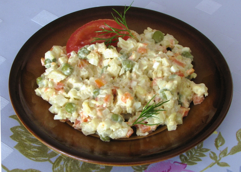 Vegetable salad with mayonnaise